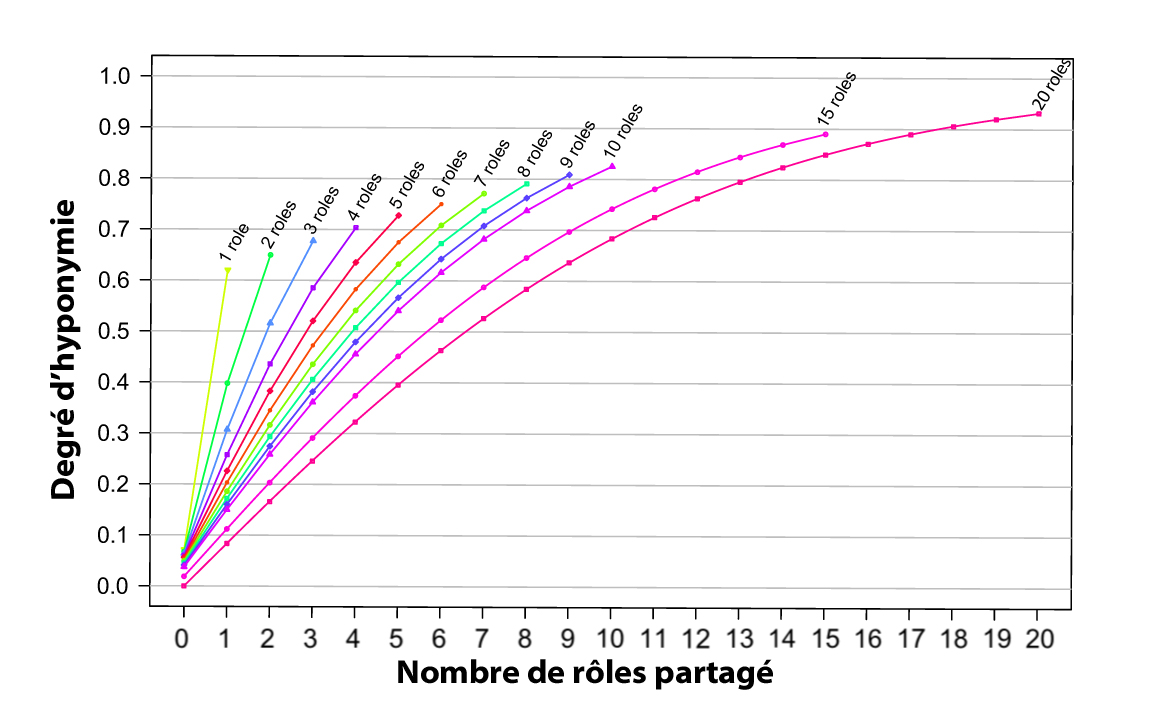 D'après Evaluating Some Heuristics to Find Hyponyms Between Ontologies [1].